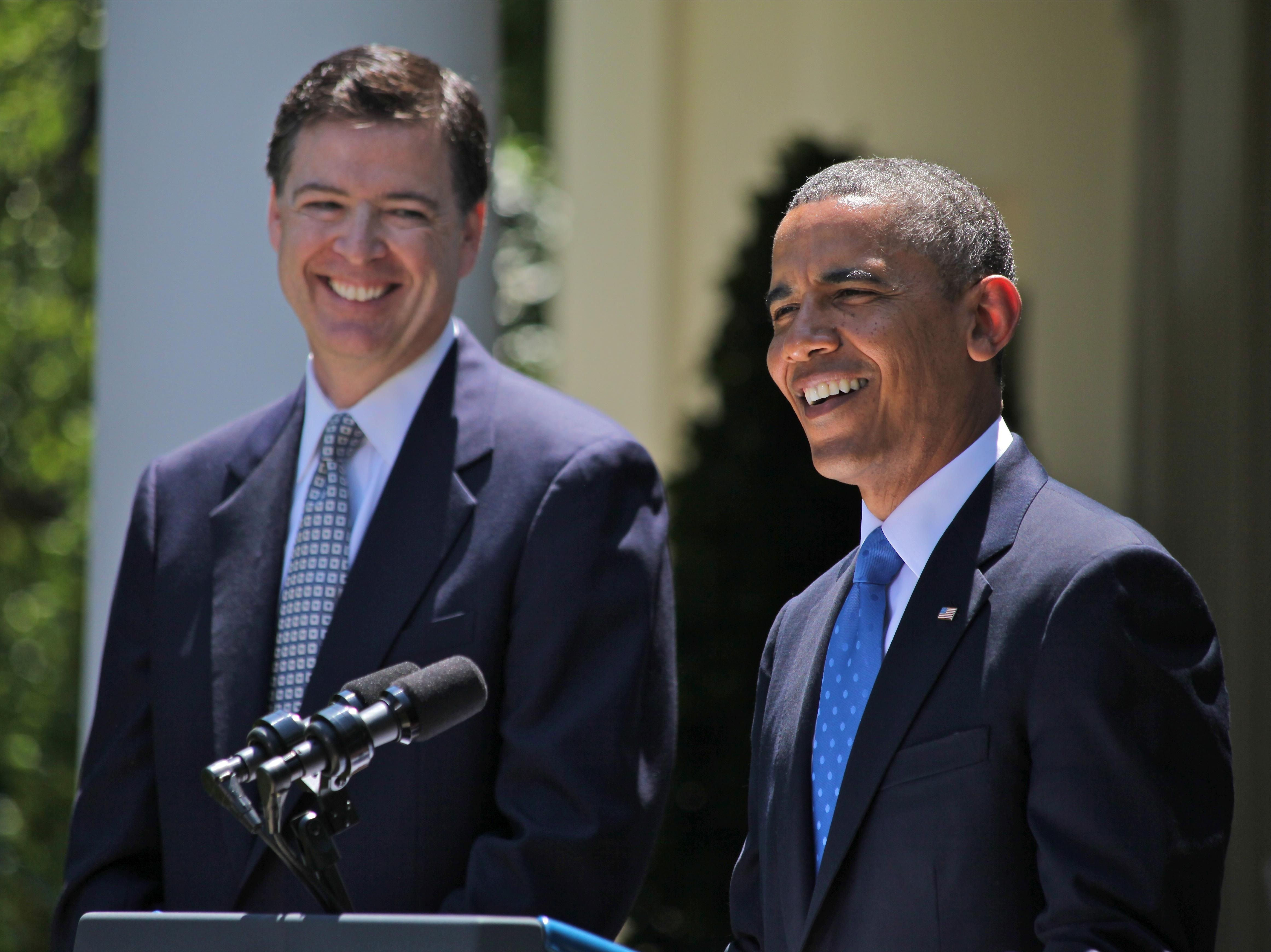 President Barack Obama and James Comey in the Rose Garden of the White House, June 21, 2013, in a light moment as President Obama announced Comey's nomination to succeed Mueller as FBI Director.